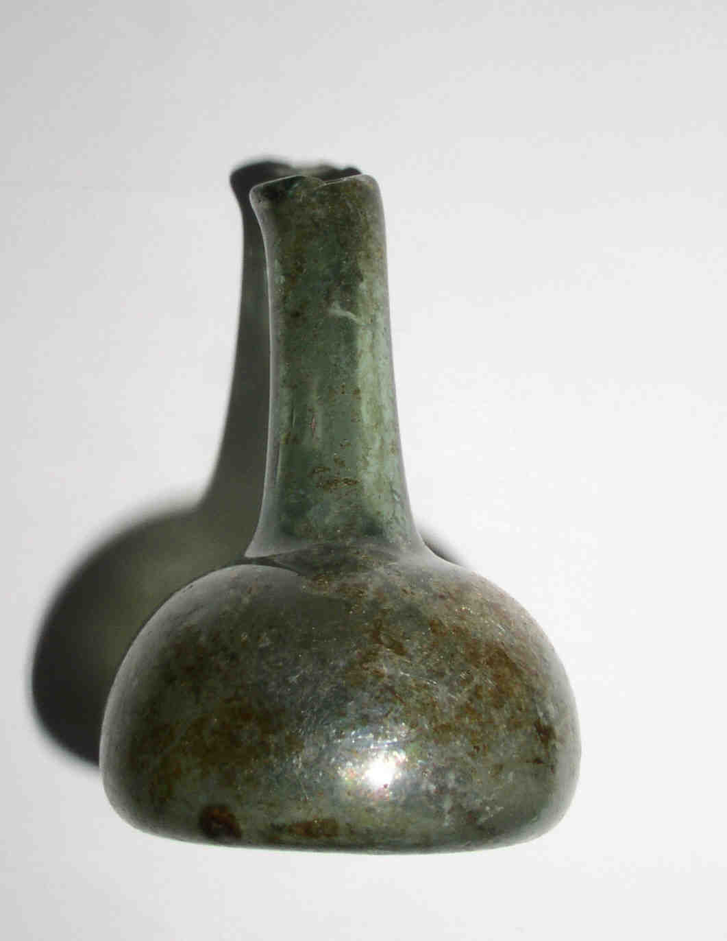 small bottle from the 17th century